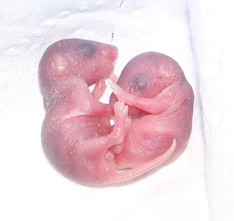 Day-old mice